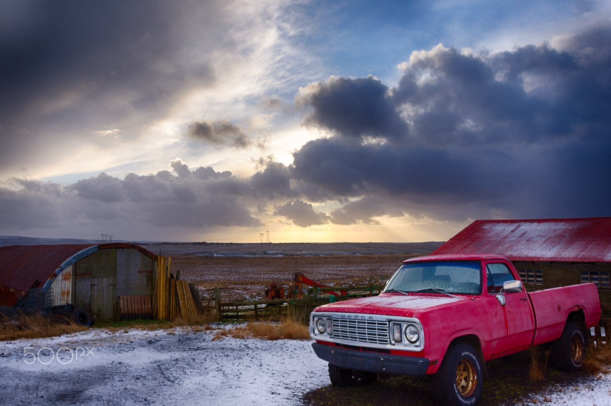 500px provided description: While traveling the golden circle in winter, color kicks in ! [#sky ,#frozen ,#sunset ,#winter ,#cold ,#travel ,#golden ,#snow ,#ice ,#iceland]